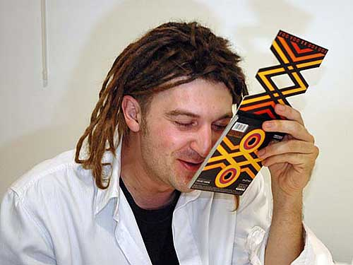 Karim Martusewicz signing XX Cz.1 recorded by Voo Voo.